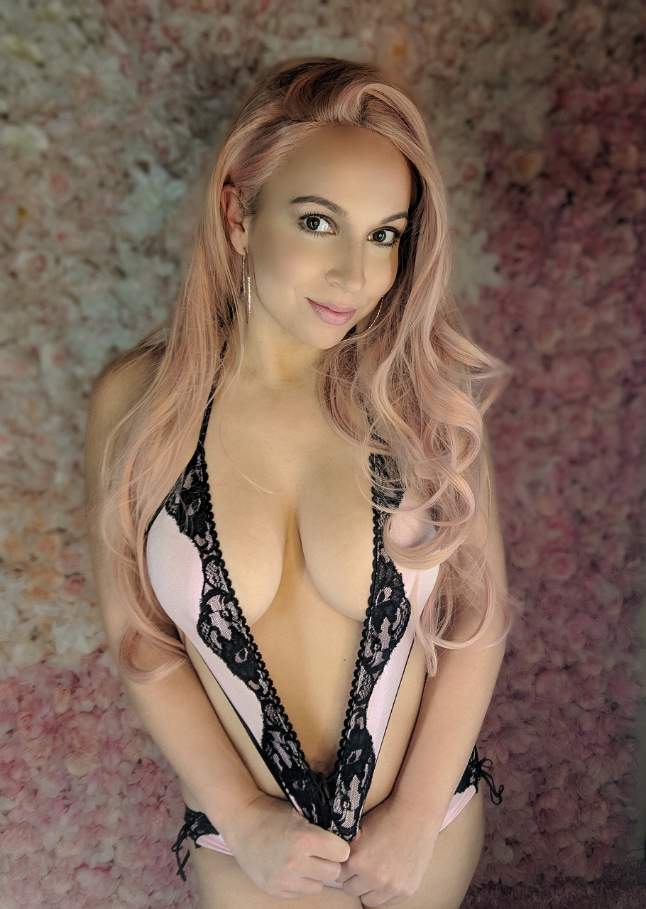 Lizzy Valentine selfie with delayed timer